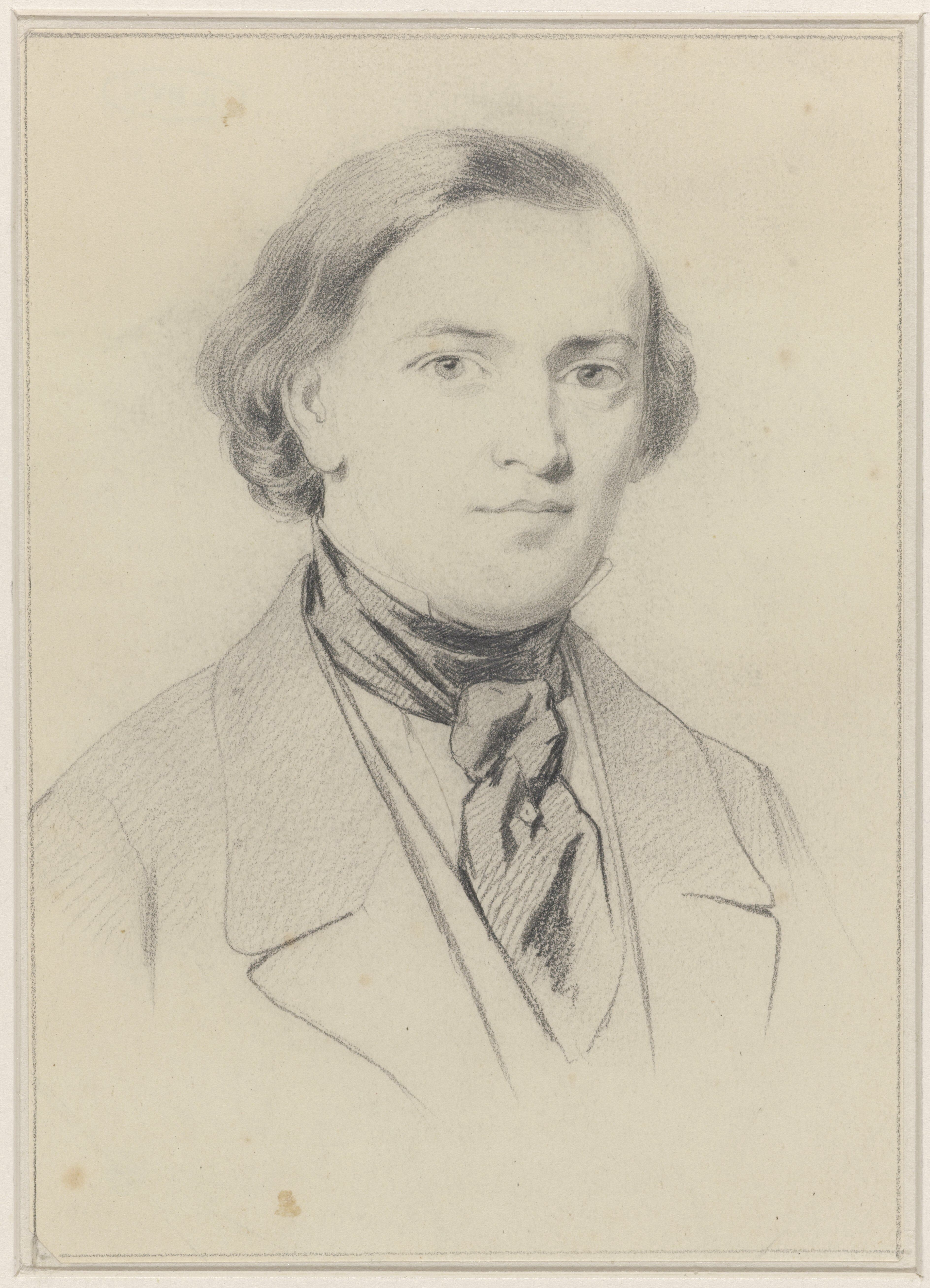 Elias van Bommel